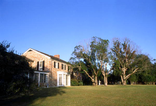 Kinhega Lodge in Tallahassee. Former home of Bull Headley until sold to investors in 1964. Later sold to Killearn Lakes developer J.T. Williams in 1985.